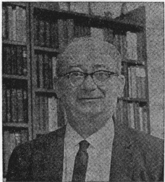 Benzion Benshalom